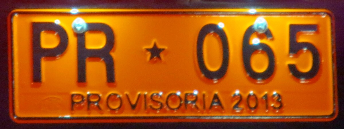 Chilean registration plate: provisional plate